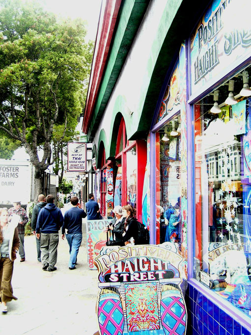 San Francisco Haight Ashbury